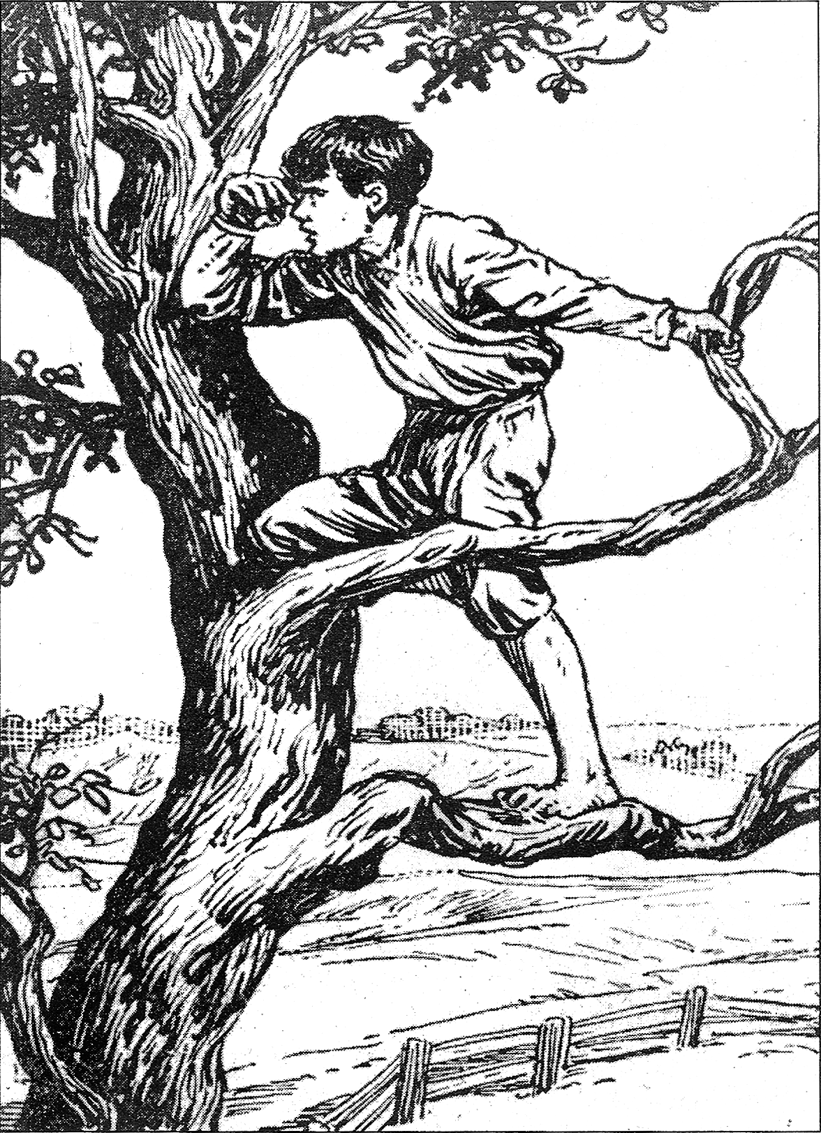 The 9th illustration from the Italian novel Heart by Edmondo de Amicis; it appears in the November chapter on Friday, 25.